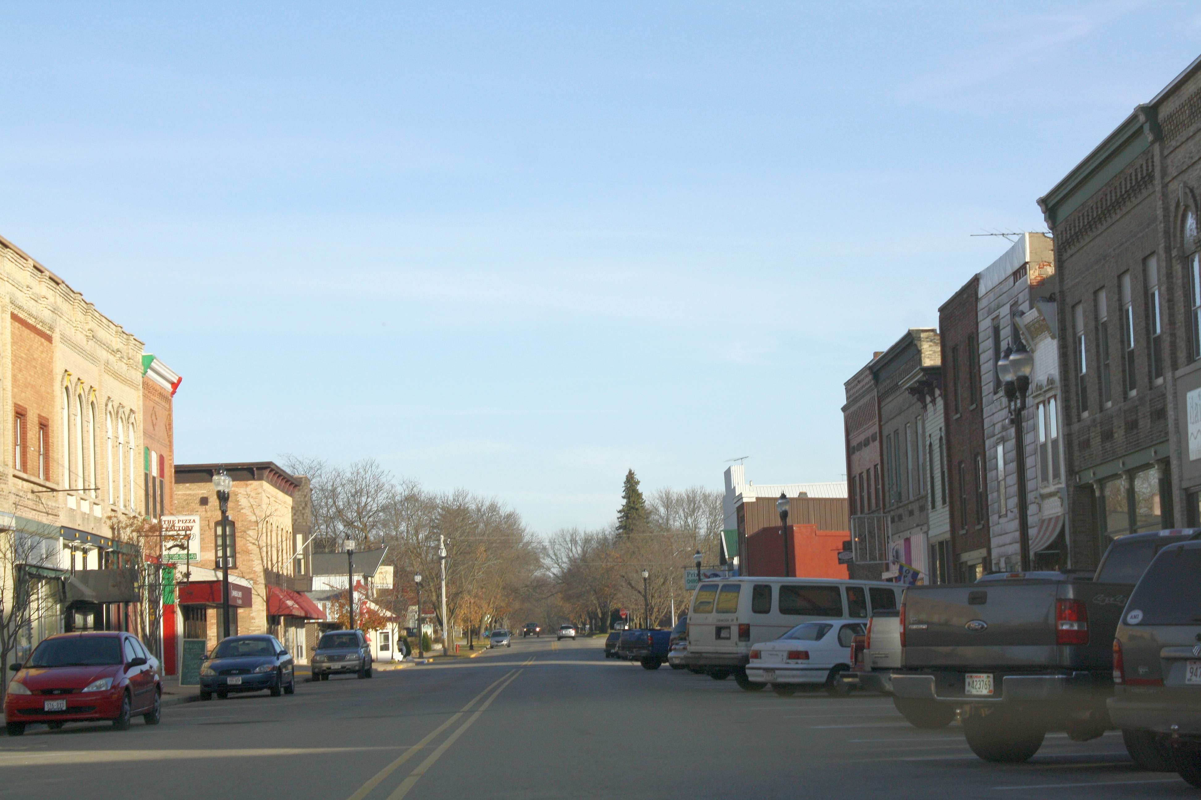 The Princeton Historic District in Princeton, Wisconsin, listed on the National Register of Historic Places.